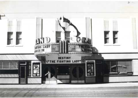 Regina Grand Theatre opened in 1912 and closed in 1957 on 11th Avenue and like other cinemas housing both stage productions and moving pictures